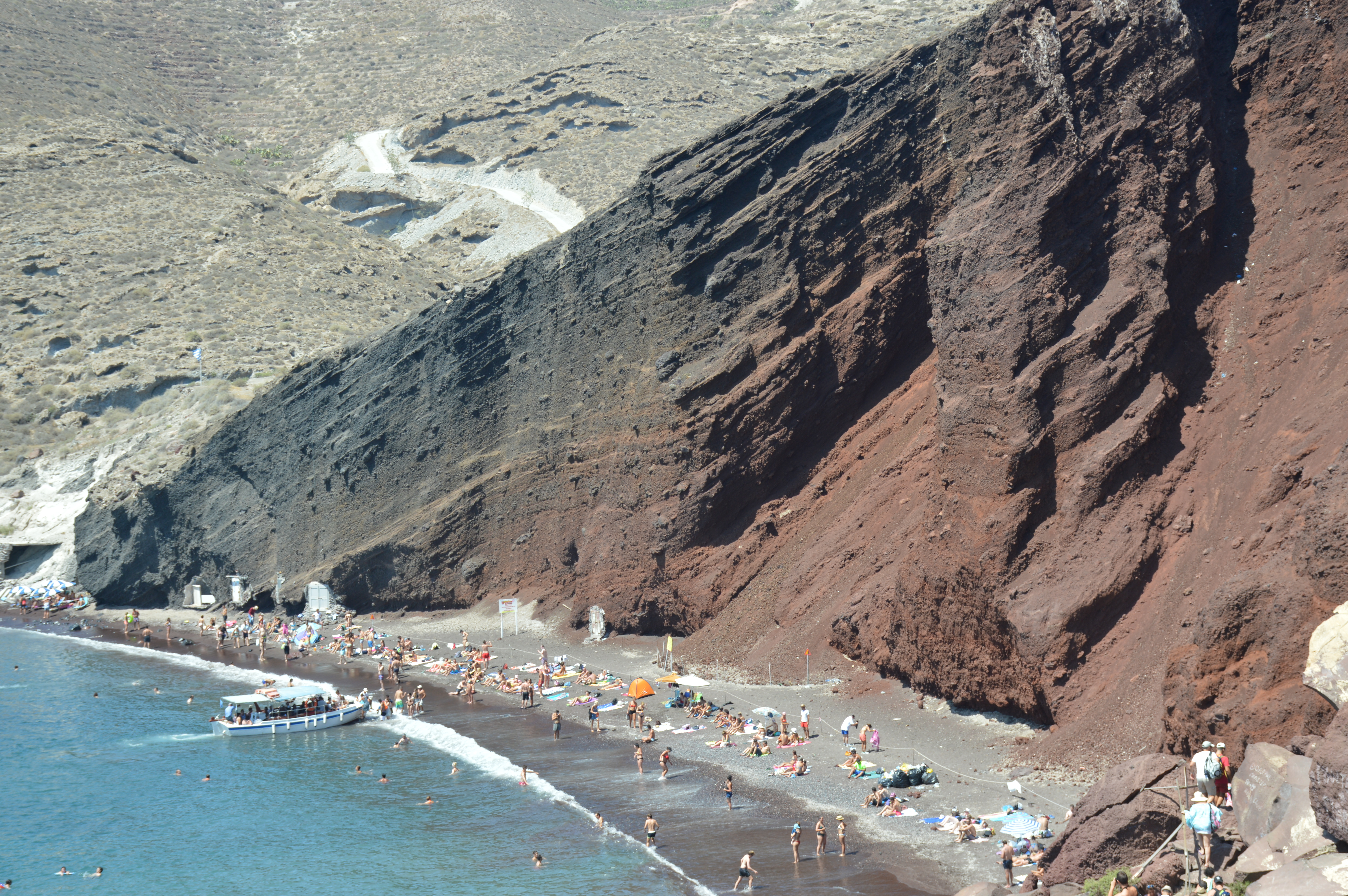 The red beach one of the most famous and beautiful beaches of Santorini, near the ancient site of Akrotiri